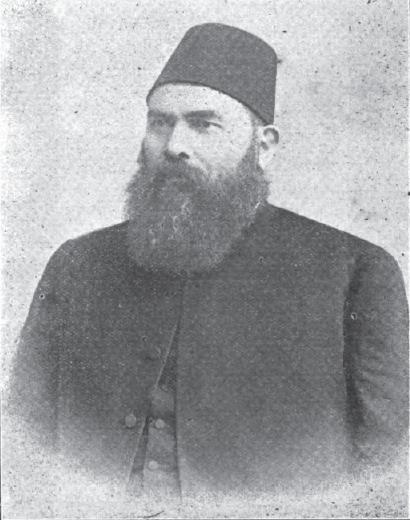 This picture was taken from a special edition of a magazine called "Resimli Gazete" (Picture Newspaper) published in Istanbul in 1899. The special edition is titled "Girit ahali-yi Islamiyesi muhtacının menfaatine mahsus nüsha-yi fevkaladesi" (Special Edition for the benefit of the needy Muslim population of Crete). Its copyrights disappeared when the Ottoman Empire ceased to exist.